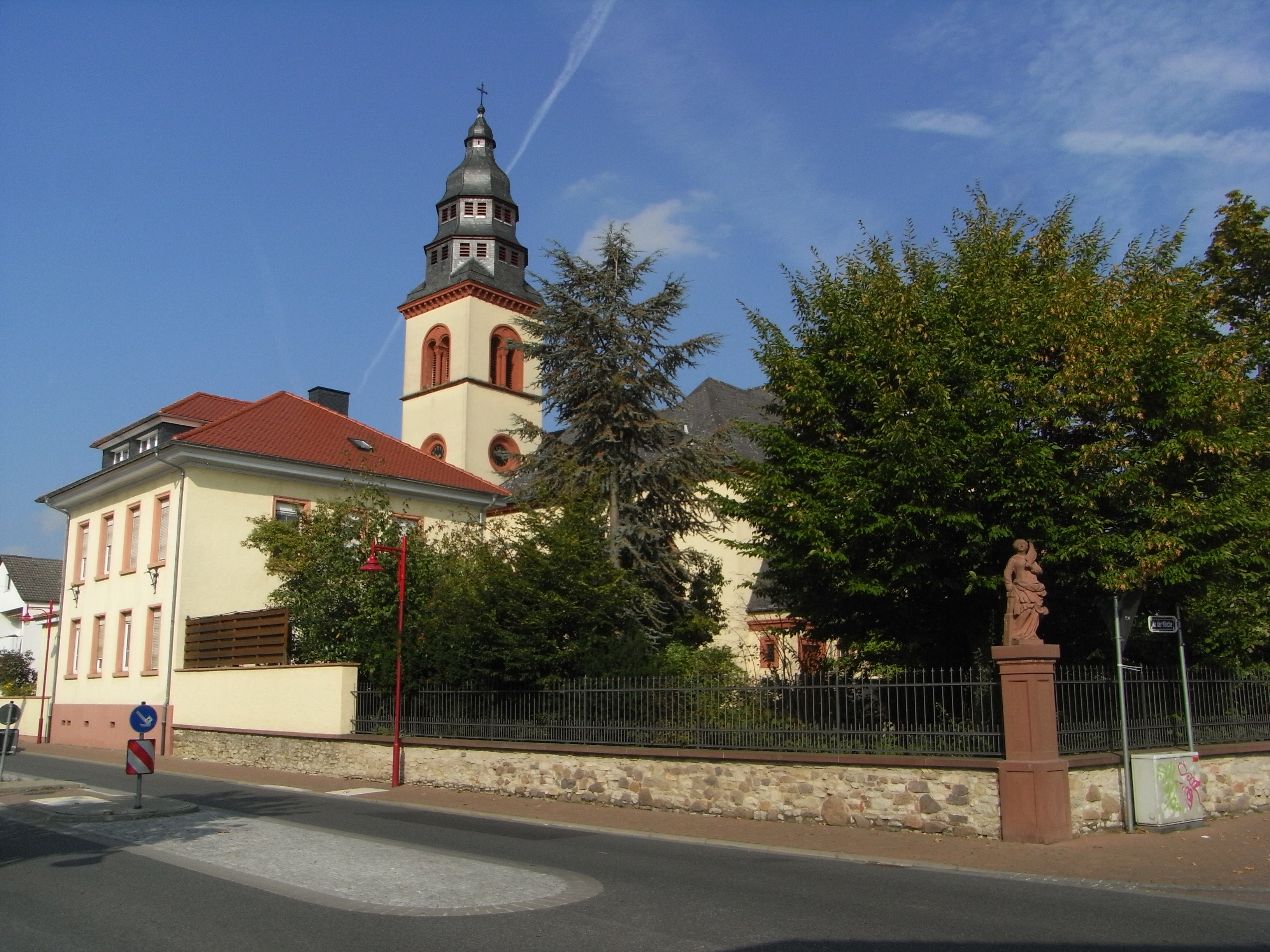 St. Michael, Catholic Church, late Baroque hall church, built in 1785-1786. Rectory and vicarage garden with the statue of Saint Barbara.